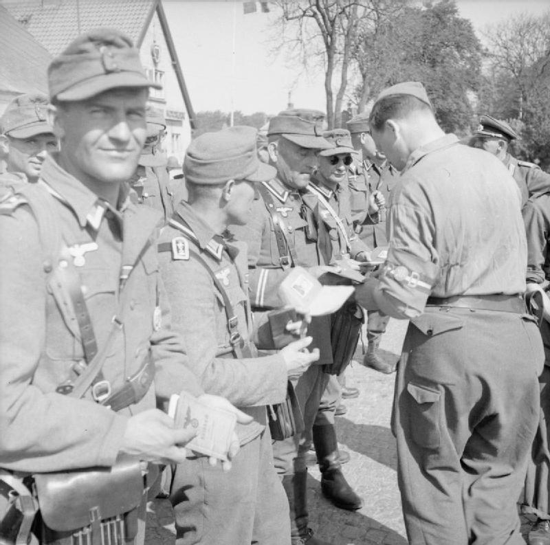 The Disarming of German Troops Crossing the Danish Border Into Germany British soldier checking the identity books of German soldiers at the frontier post at Krusau.